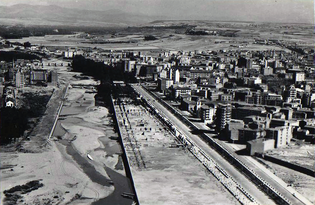 It was a picture from León (Spain)